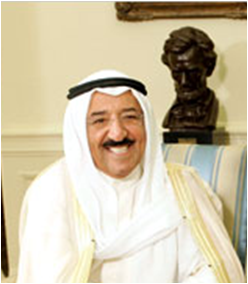 cropped version of :Image:Sabah_Al-Ahmad_Al-Jaber_Al-Sabah_and_Bush_-_US_State_Department.png